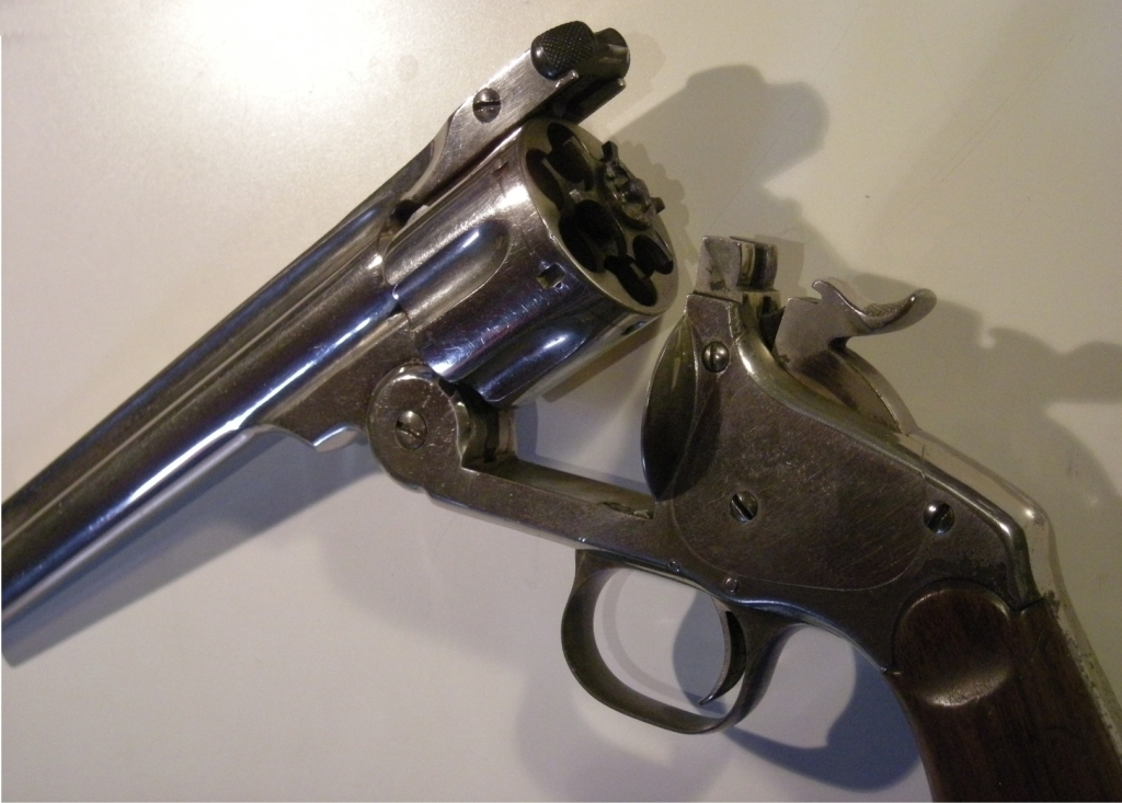 S & W No 3 open